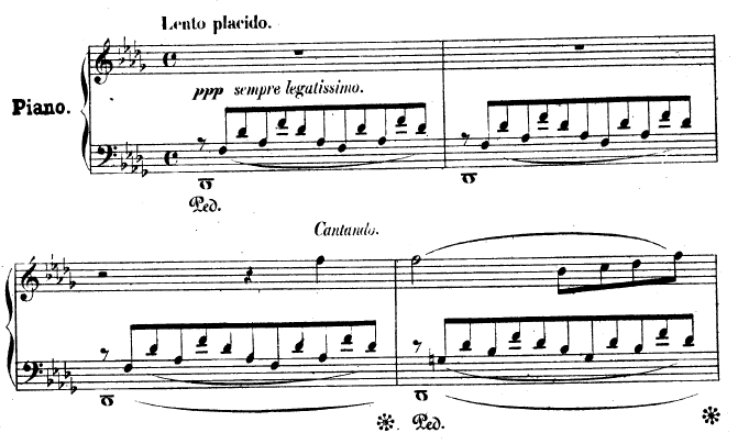 Sheet Music, 1850 Breitkopf, Consolations S.172/3, Opening Bars